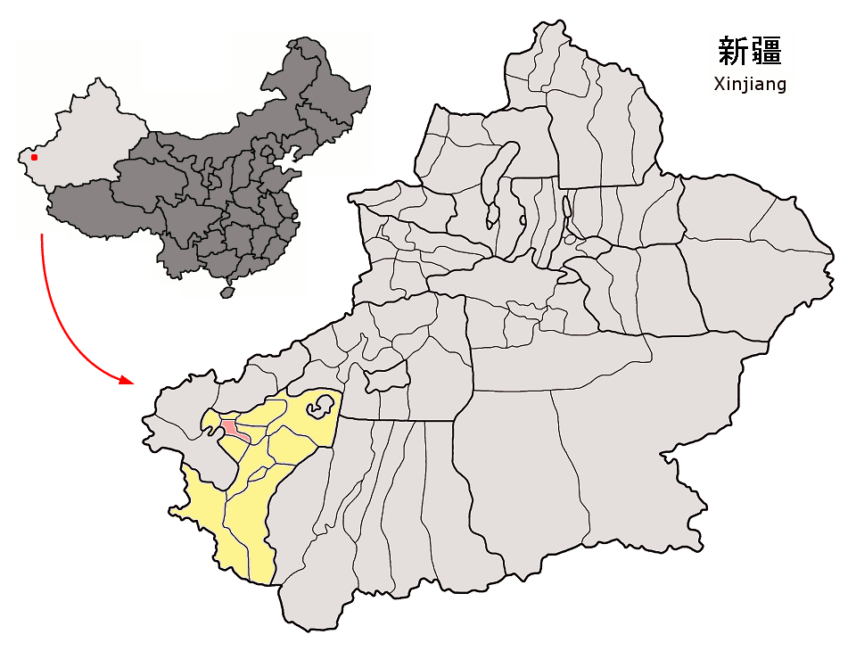 Location of Shule County (pink) and Kashgar Prefecture (yellow) within Xinjiang autonomous region of China Map drawn in september 2007 using various sources, mainly : Xinjiang Uygur autonomous region administrative regions GIS data: 1:1M, County level, 1990 Xinjiang Counties map from